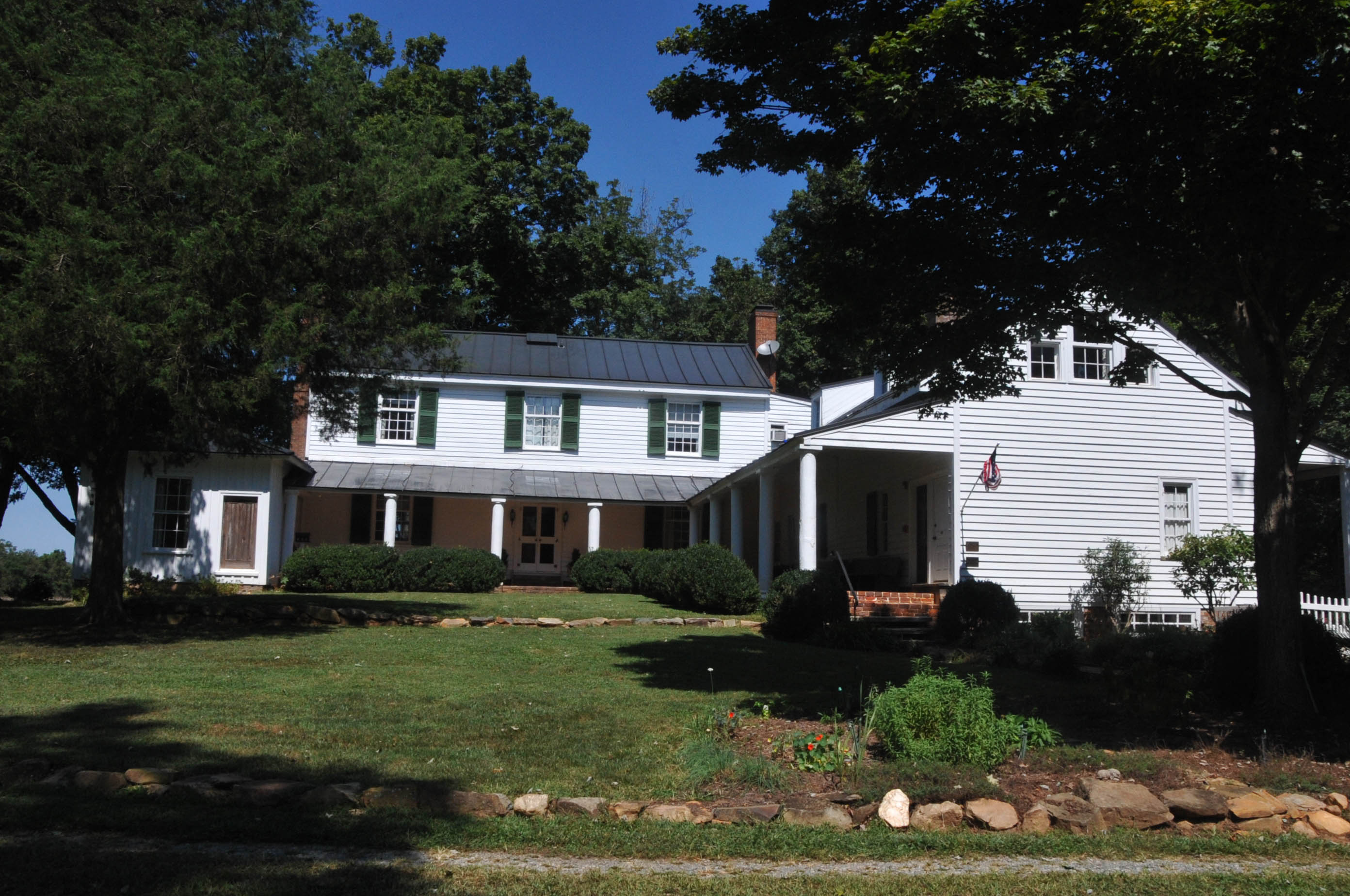 Headmaster's home now restored and functions as a B&B.